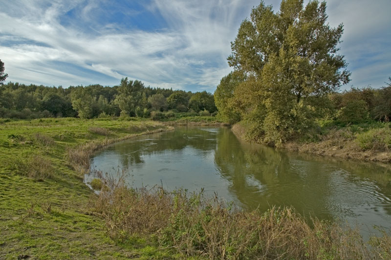 Germany, river Lippe between Bergkamen-Rünthe and Werne